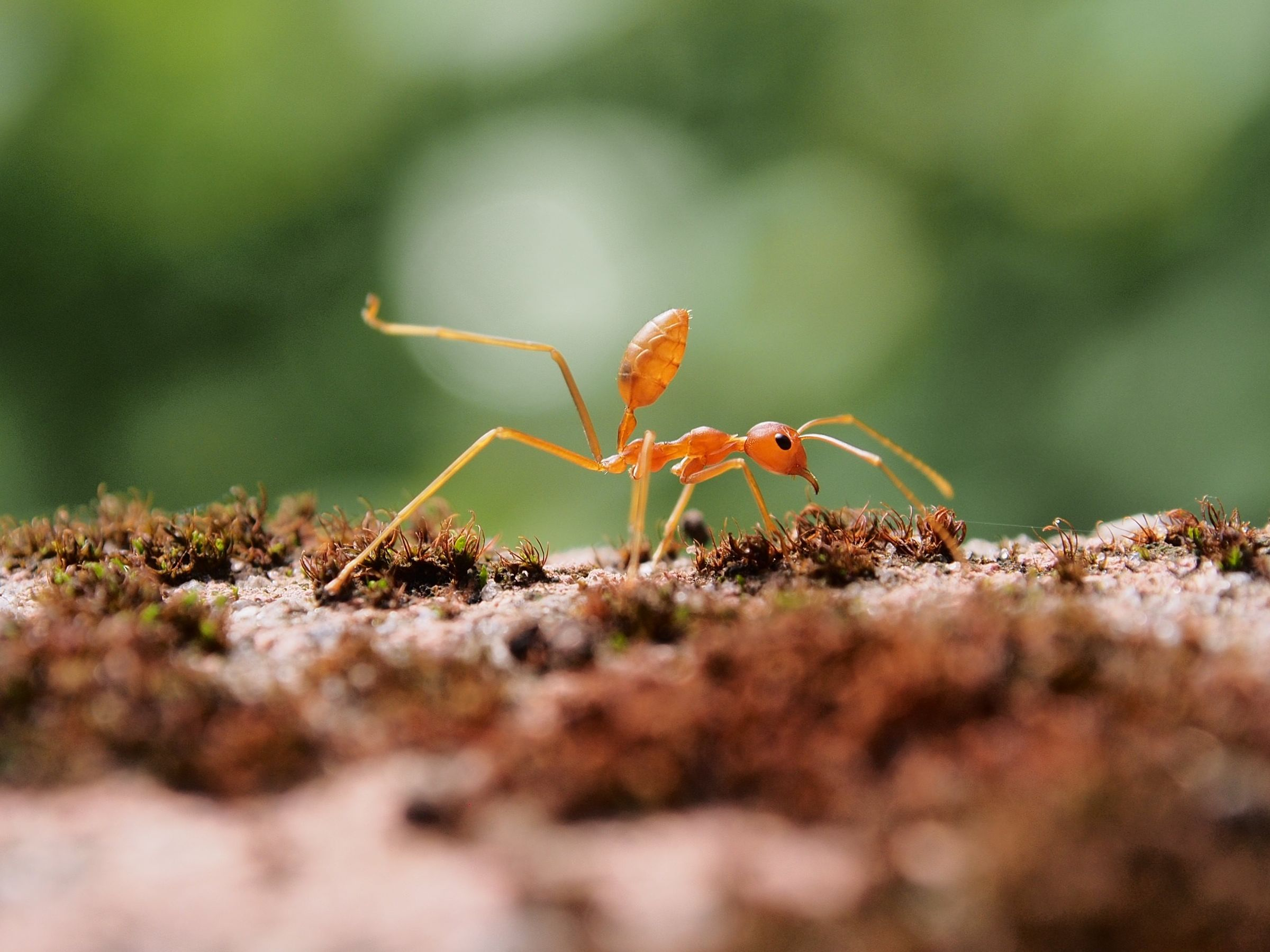 Weaver Ant, Alappuzha, Kerala